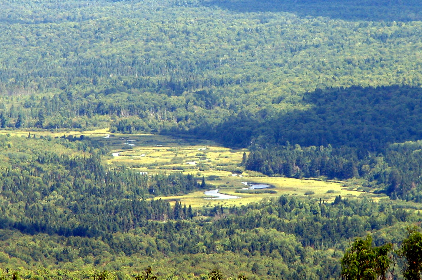 Saint Regis River from Azure Mountain, Adirondack Park, Waverly, New York.